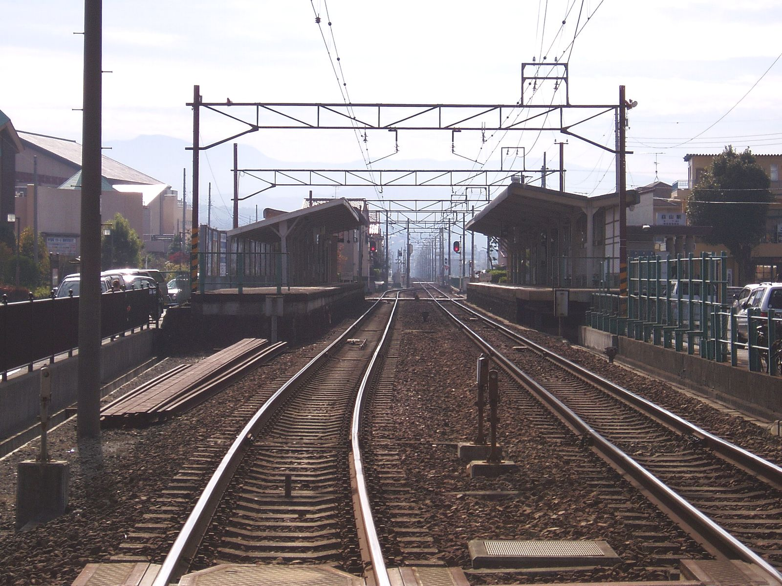 Isuhakone Railway Company, Nirayama Sta. 2007.11.26 Photo by Cassiopeia_sweet.